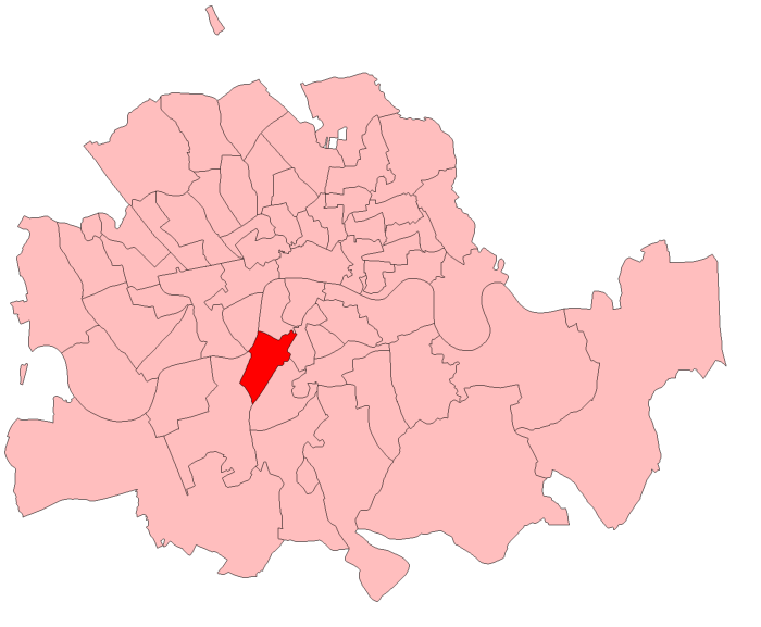 A map of Kennington constituency within the Metropolitan Board of Works area, as it existed from 1885 to 1918.